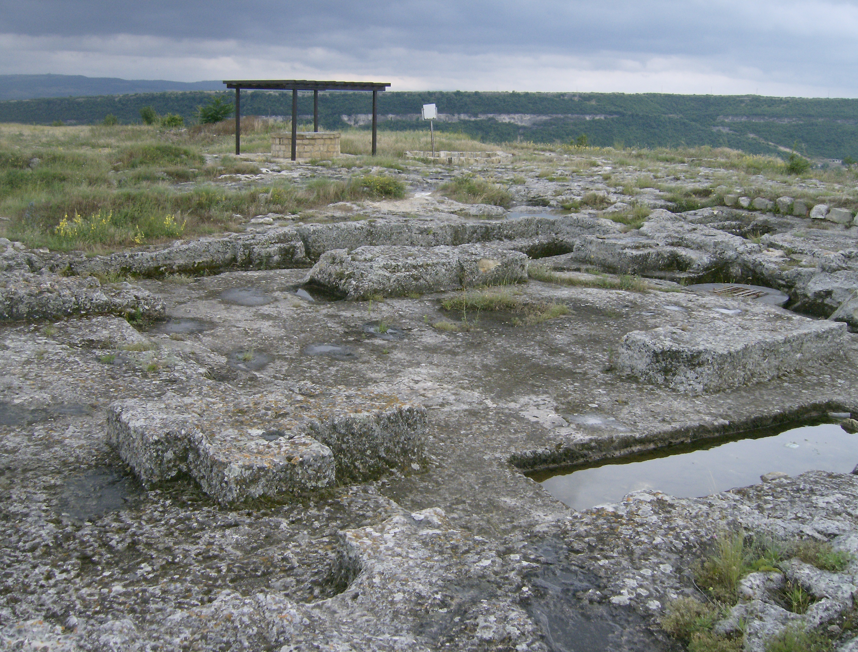 Ovech Fortress